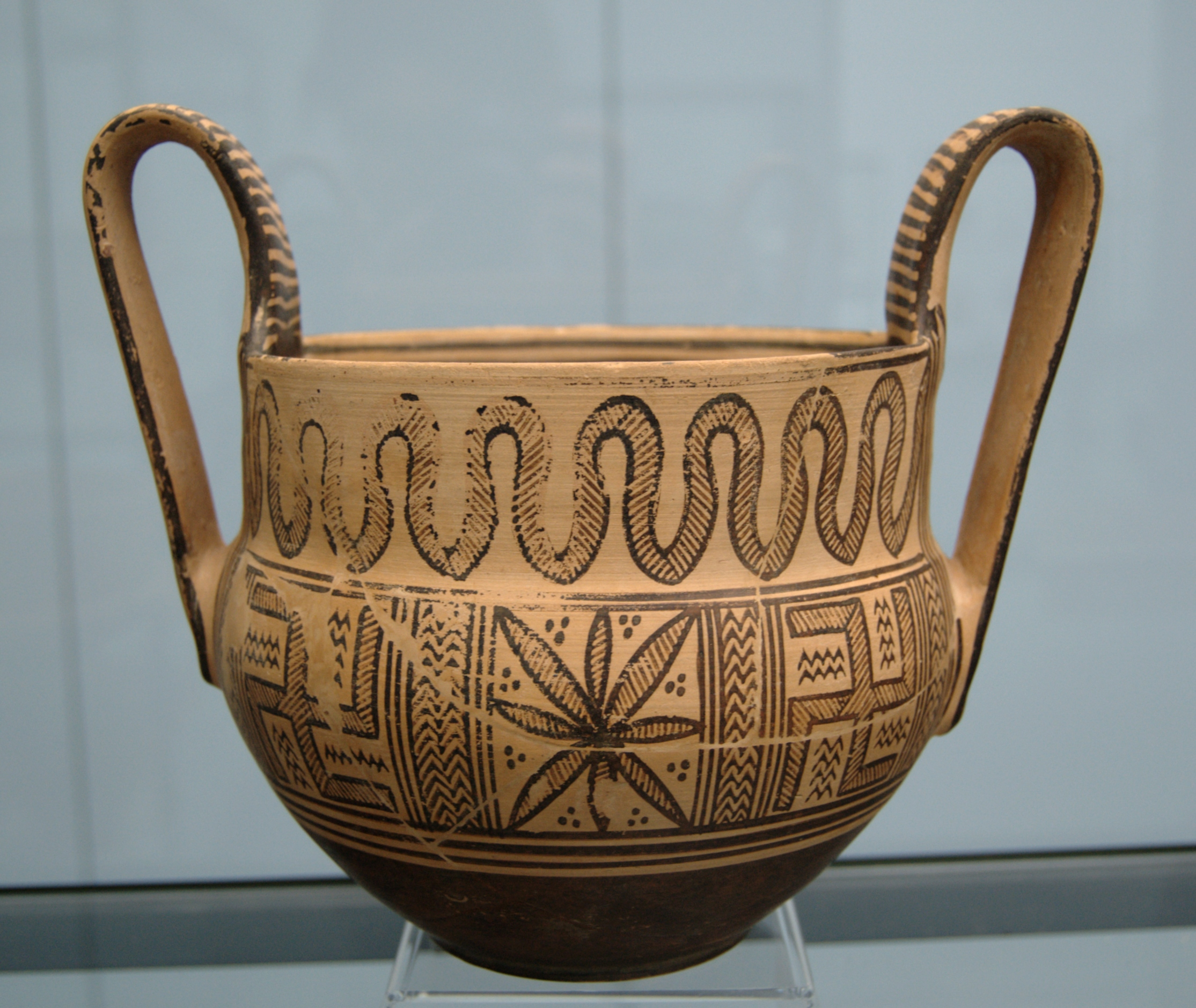 Kantharos. The snakes on handles mark a funerary present. Ornamentations—snakes frieze, swastikas and spangled flowers—have a symbolic value. Attica, ca. 780 BC.